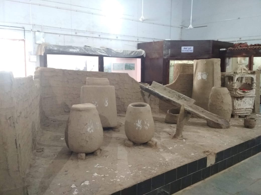 Bhils or Bheels are an Indo-Aryan speaking ethnic group in West India. They speak the Bhil languages, a subgroup of the Western Zone of the Indo-Aryan languages. As of 2013, Bhils were the largest tribal group in India. Bhils are listed as indigenous people of the states of Gujarat, Madhya ... Main foods of Bhils are maize, onion, garlic and chili which they cultivate in . This photo has been taken in the country: India